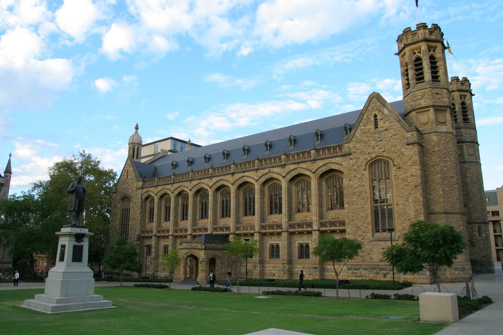 The University of Adelaide